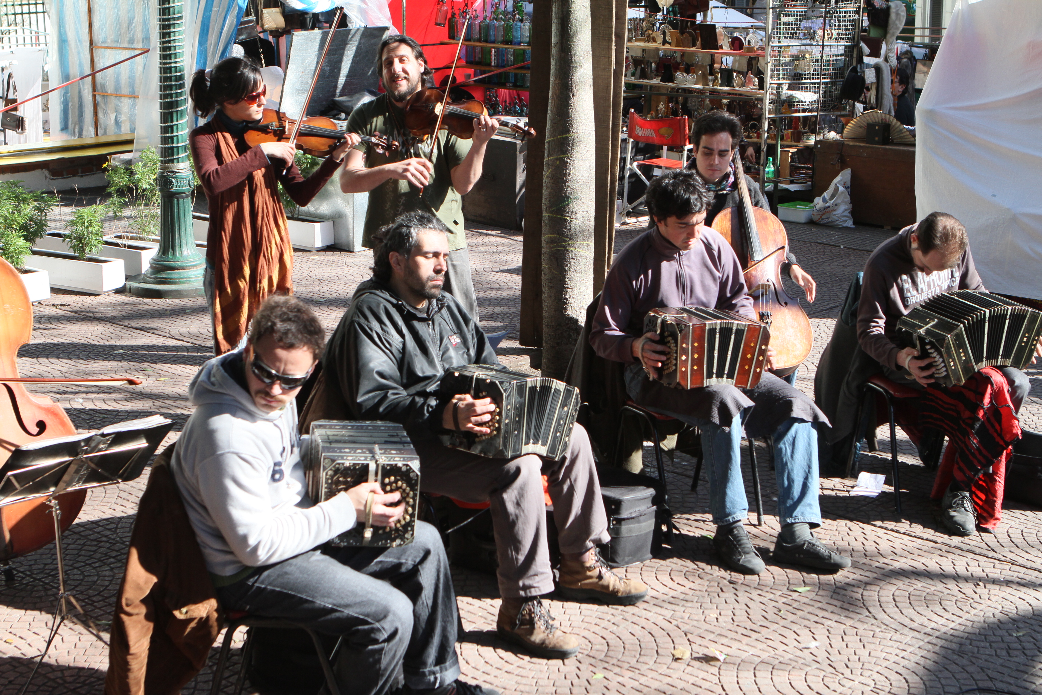 Tango music from Buenos Aires, Argentine.